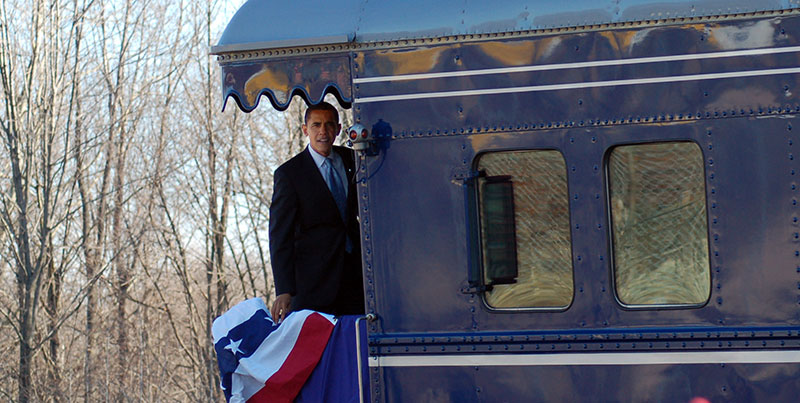 Barack Obama on the end of the Georgia 300 train car as it rolls through Claymont, Delaware on the way to Washington, D.C..